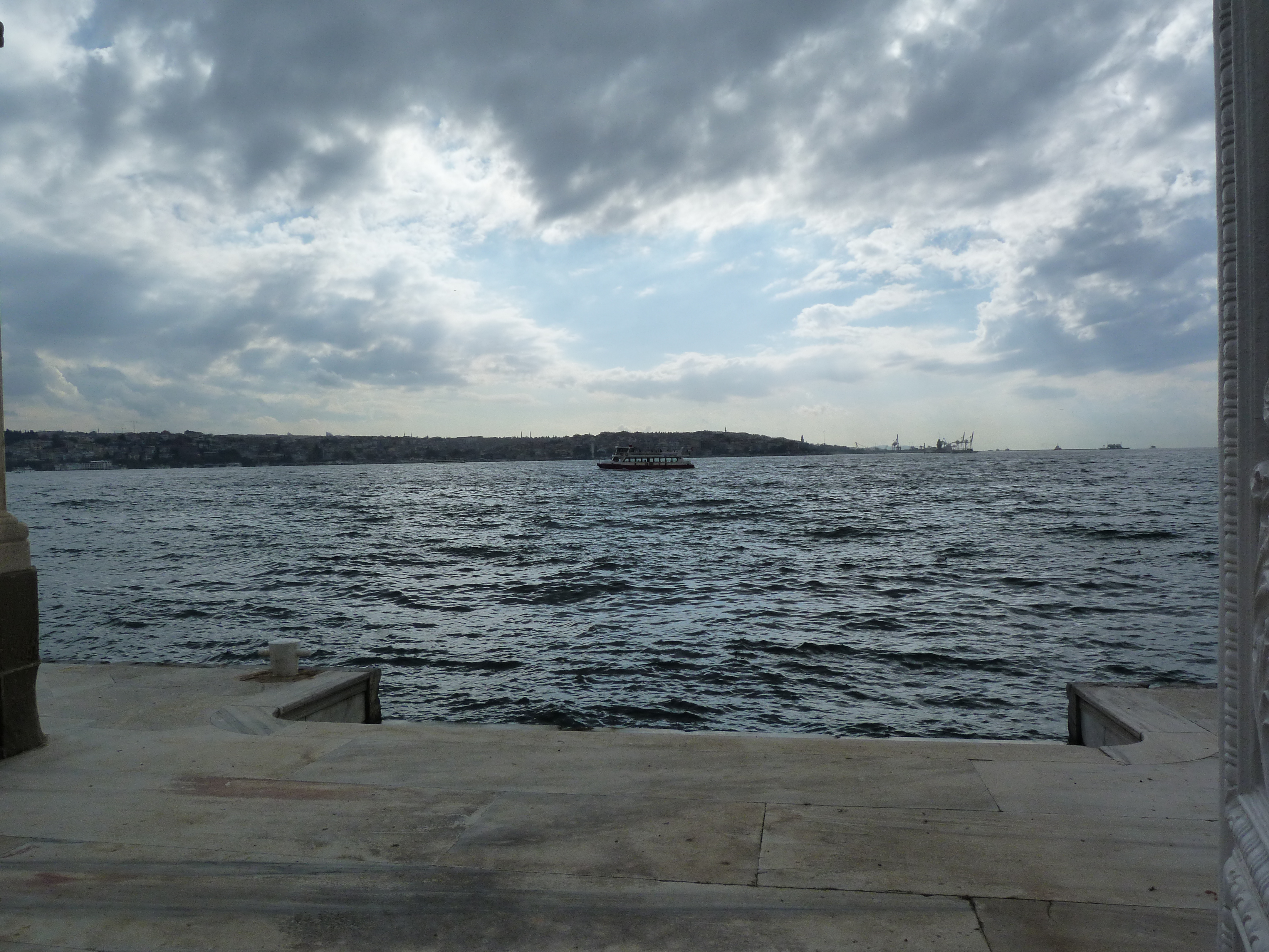 Live on Friday, 24th of October, 2014. Garden of the Dolmabahçe Palace. Bosporus - From the garden of the Dolmabahçe Palace. As part of the only passage between the Black Sea and the Mediterranean, the Bosporus has always been of great commercial and strategic importance. It is a major sea access route for Russia. Control over it has been an objective of a number of hostilities in modern history, notably the Russo–Turkish War, 1877–1878, as well as of the attack of the Allied Powers on the Dardanelles during the 1915 Battle of Gallipoli in the course of World War I. ©© Derzsi Elekes Andor, Budapest, 2014, Published in the Metapolisz DVD line. You are authorised to use this photo under Creative Commons – even for commercial, for profit purposes. The photo must be attributed to Derzsi Elekes Andor. All of the photos and vids in the Metapolisz DVD line are under Creative Commons and can be used even for commercial – for profit – purposes. Recommended Citation Derzsi Elekes Andor: Metapolisz DVD line